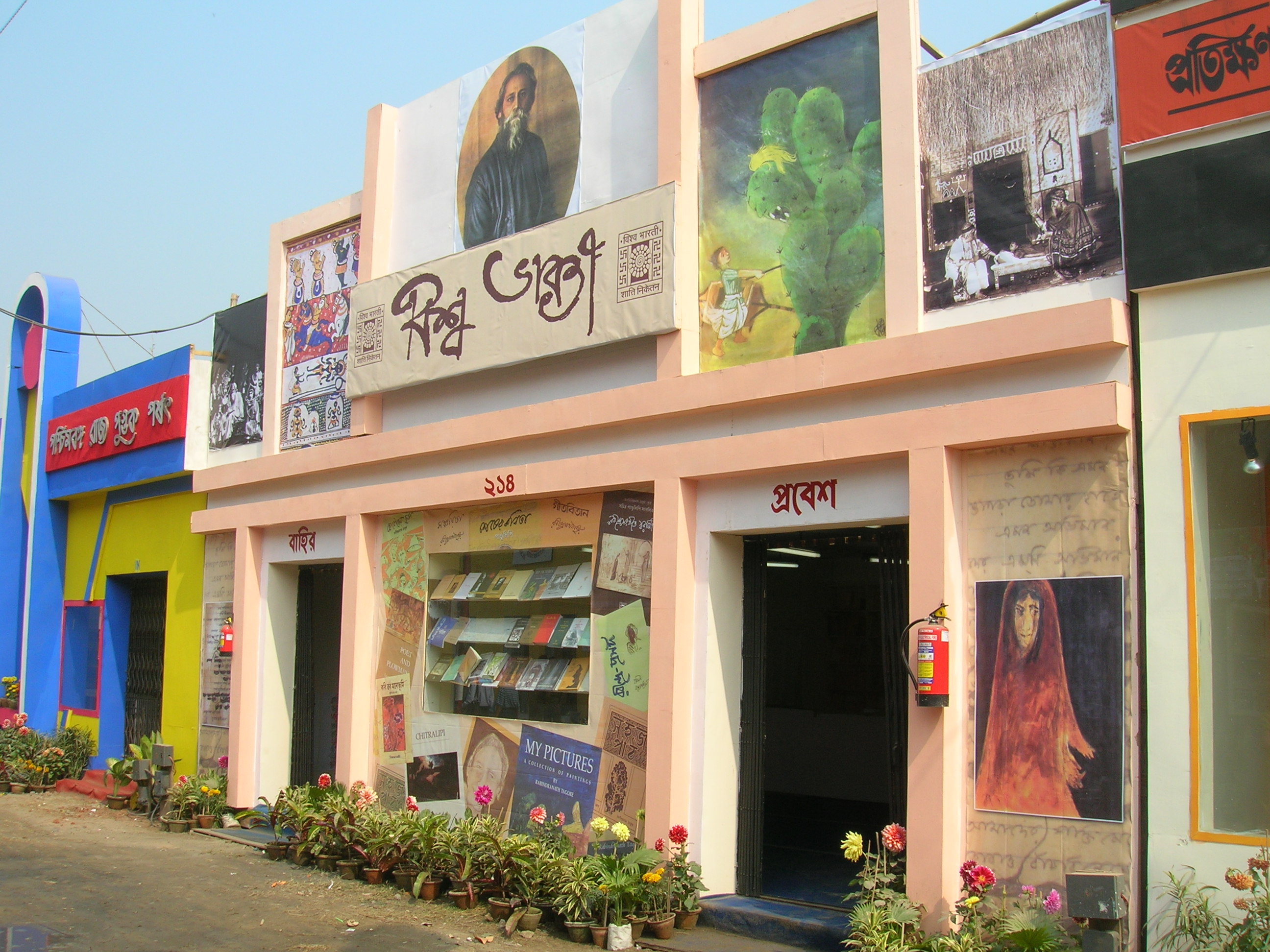 Visva-Bharati stall at Kolkata Book Fair 2009